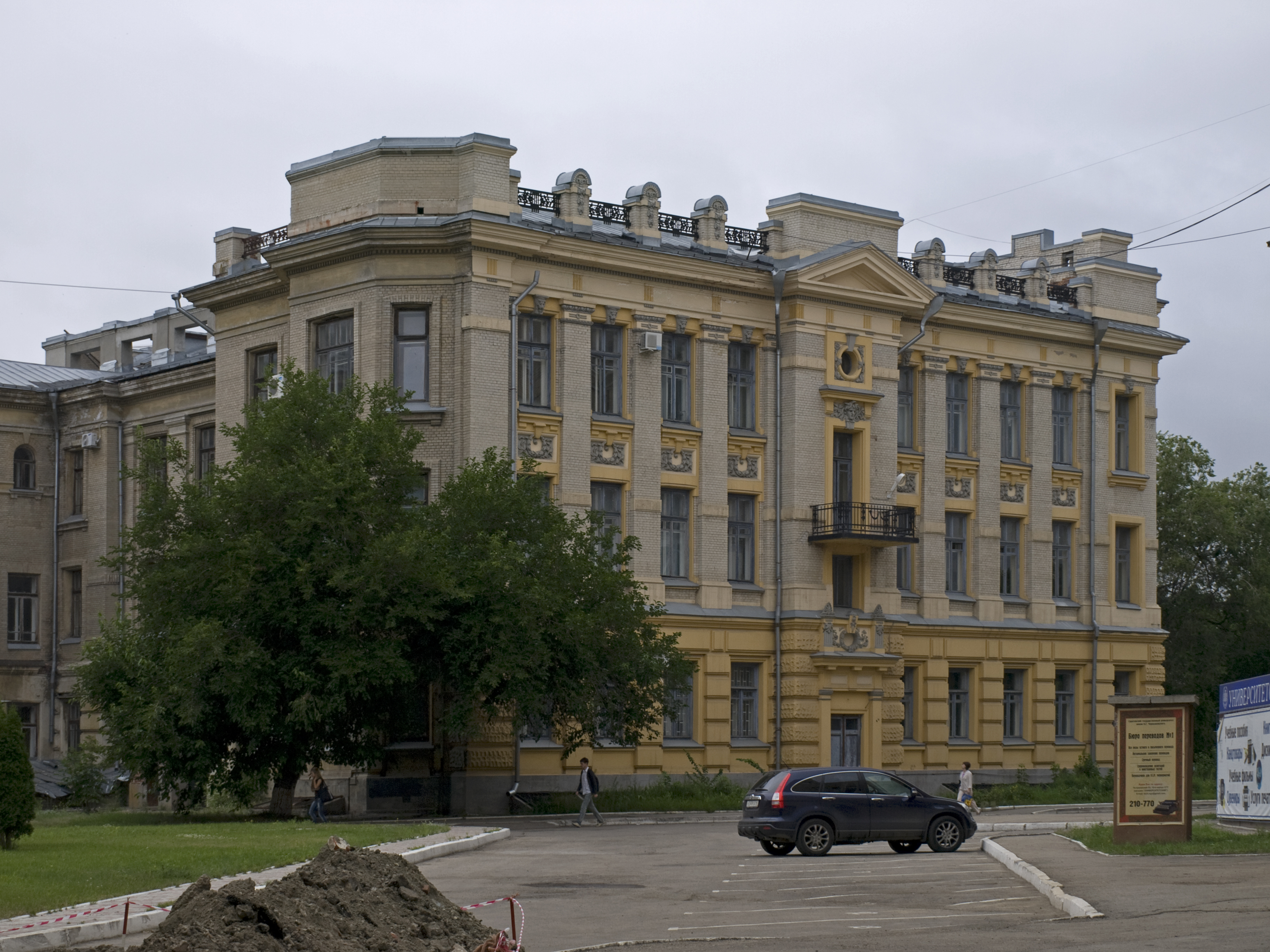 Saratov State University Building 1